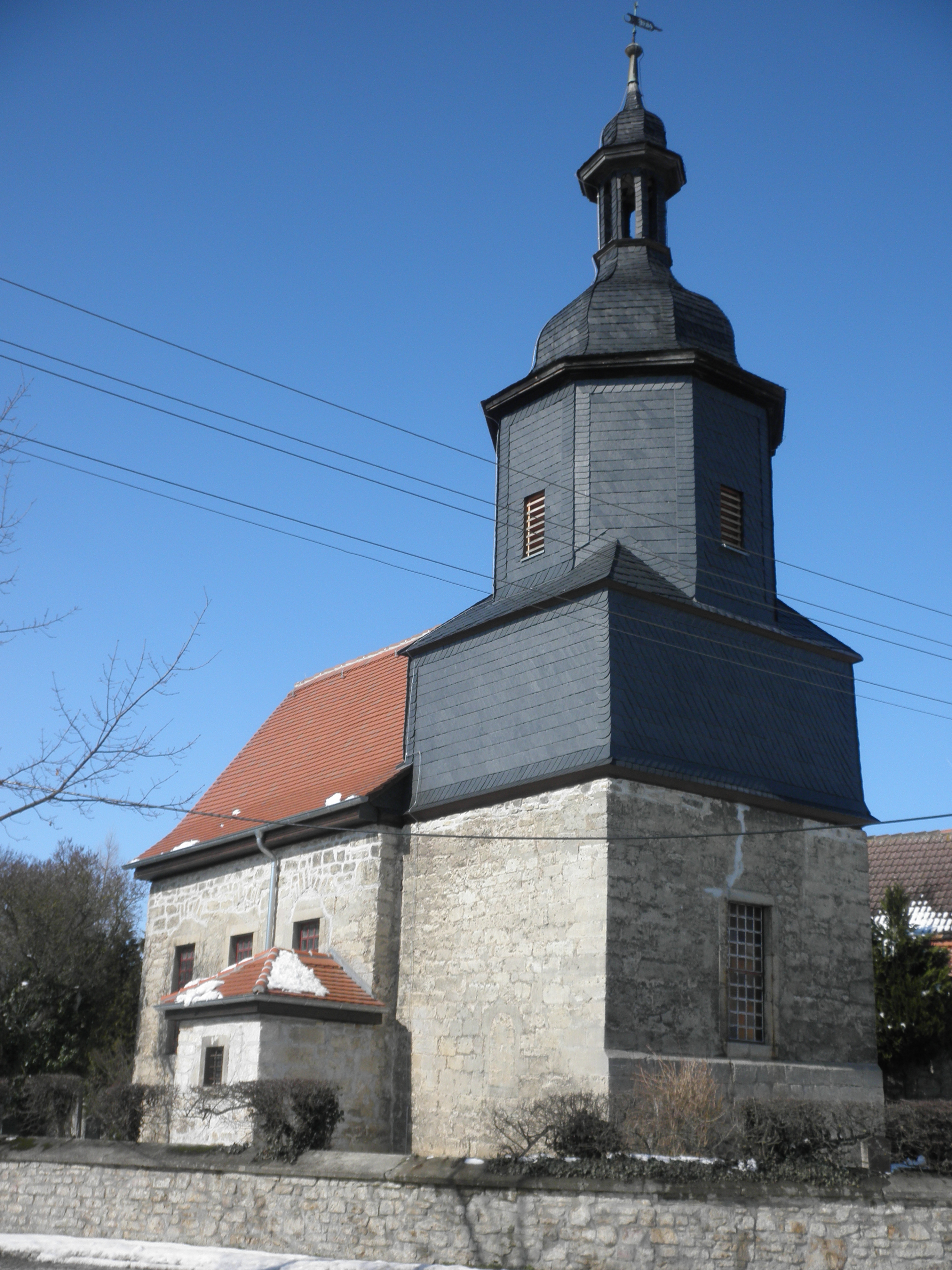 Church in Lützeroda (Jena) in Thuringia